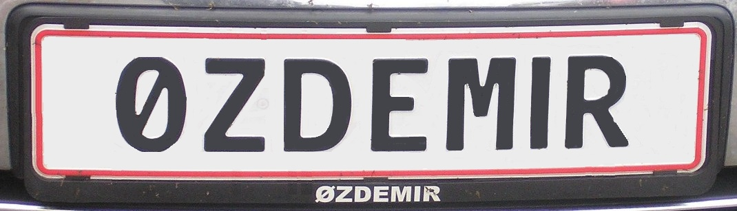 A Danish vanity plate